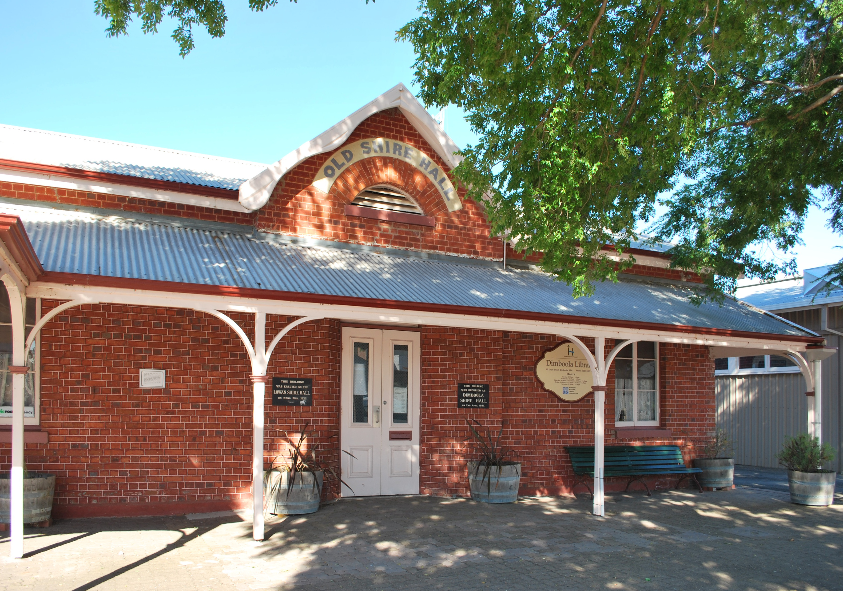 The old Shire Hall, now a library, at Dimboola, Victoria